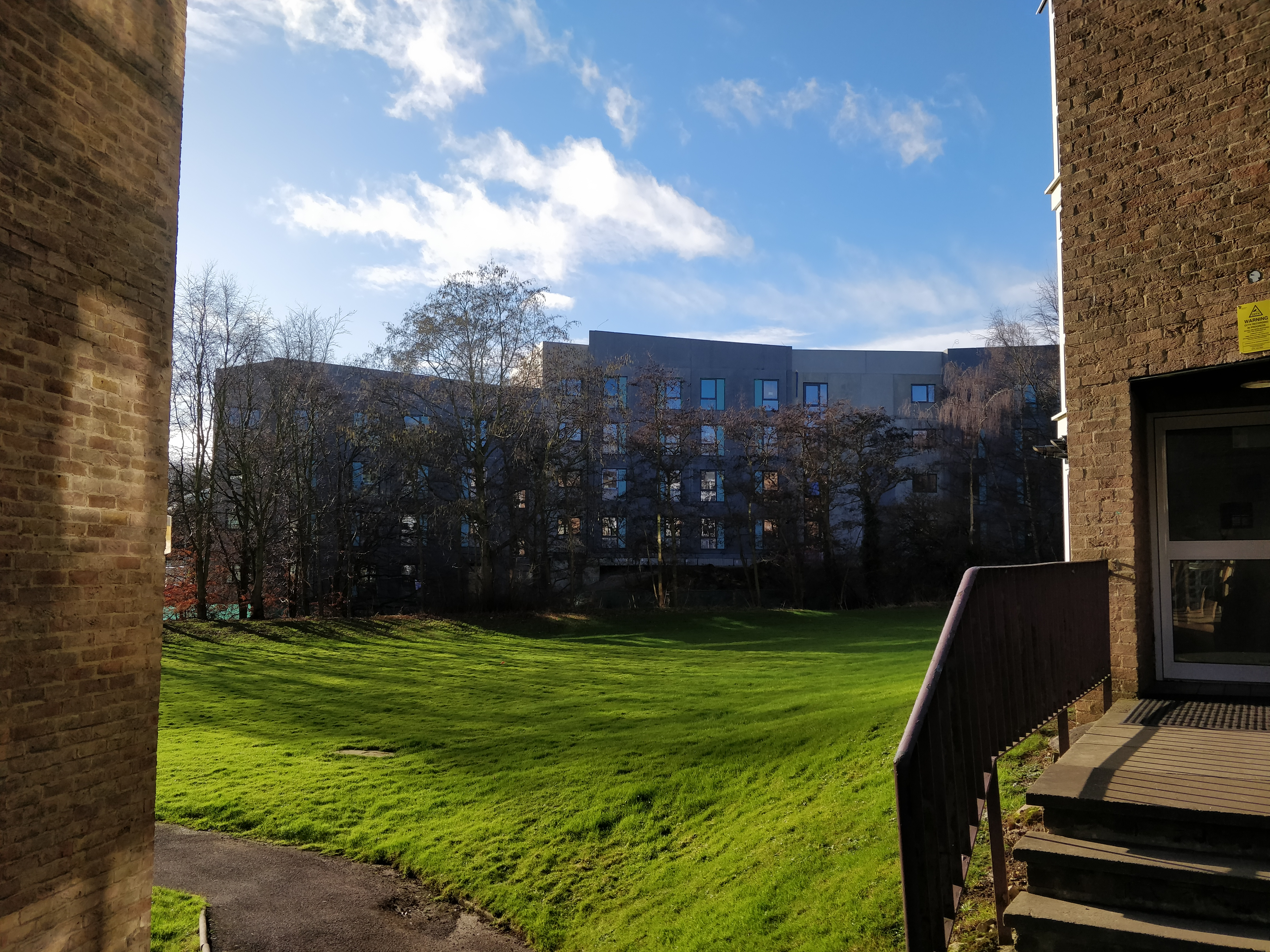 South College, Durham, under construction in January 2020, from Van Mildert College, Durham